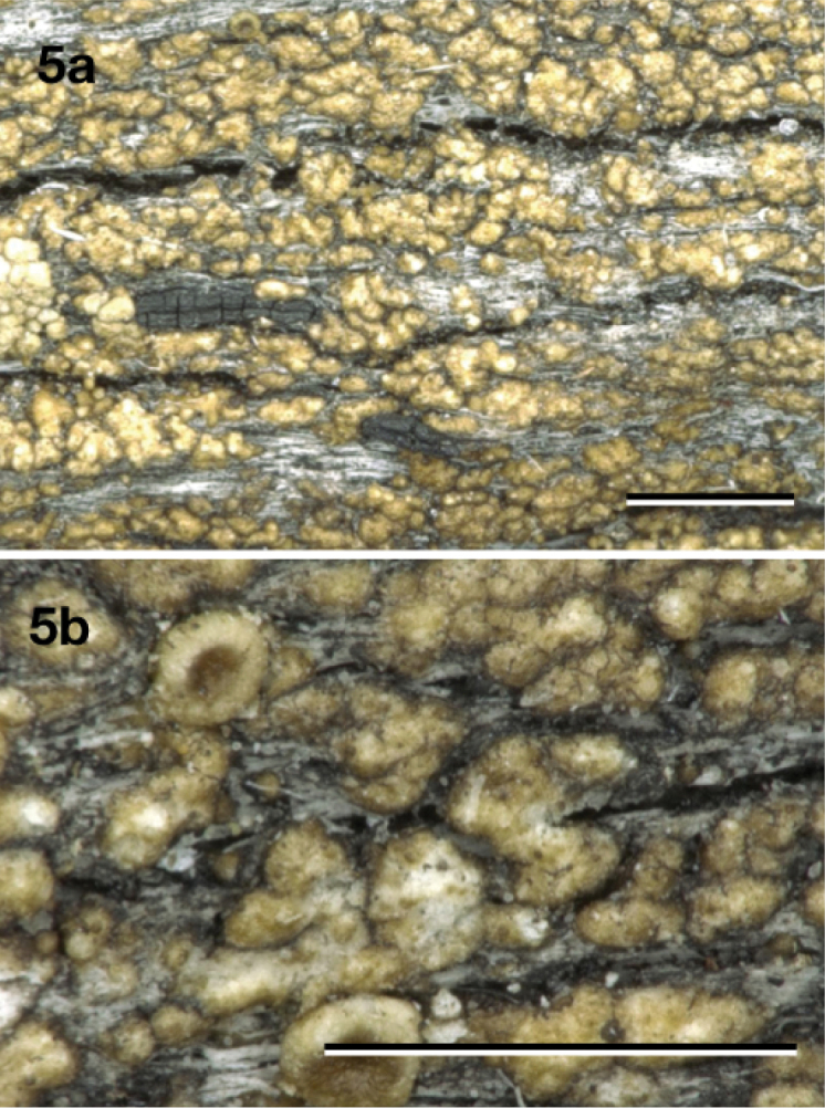 The lichen Neoprotoparmelia australisidiata, holotype Kantvilas 289/07 (HO 545660). Scale bar: 1 mm.